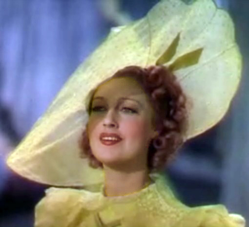 Cropped screenshot of Jeanette MacDonald from the trailer for the film Sweethearts